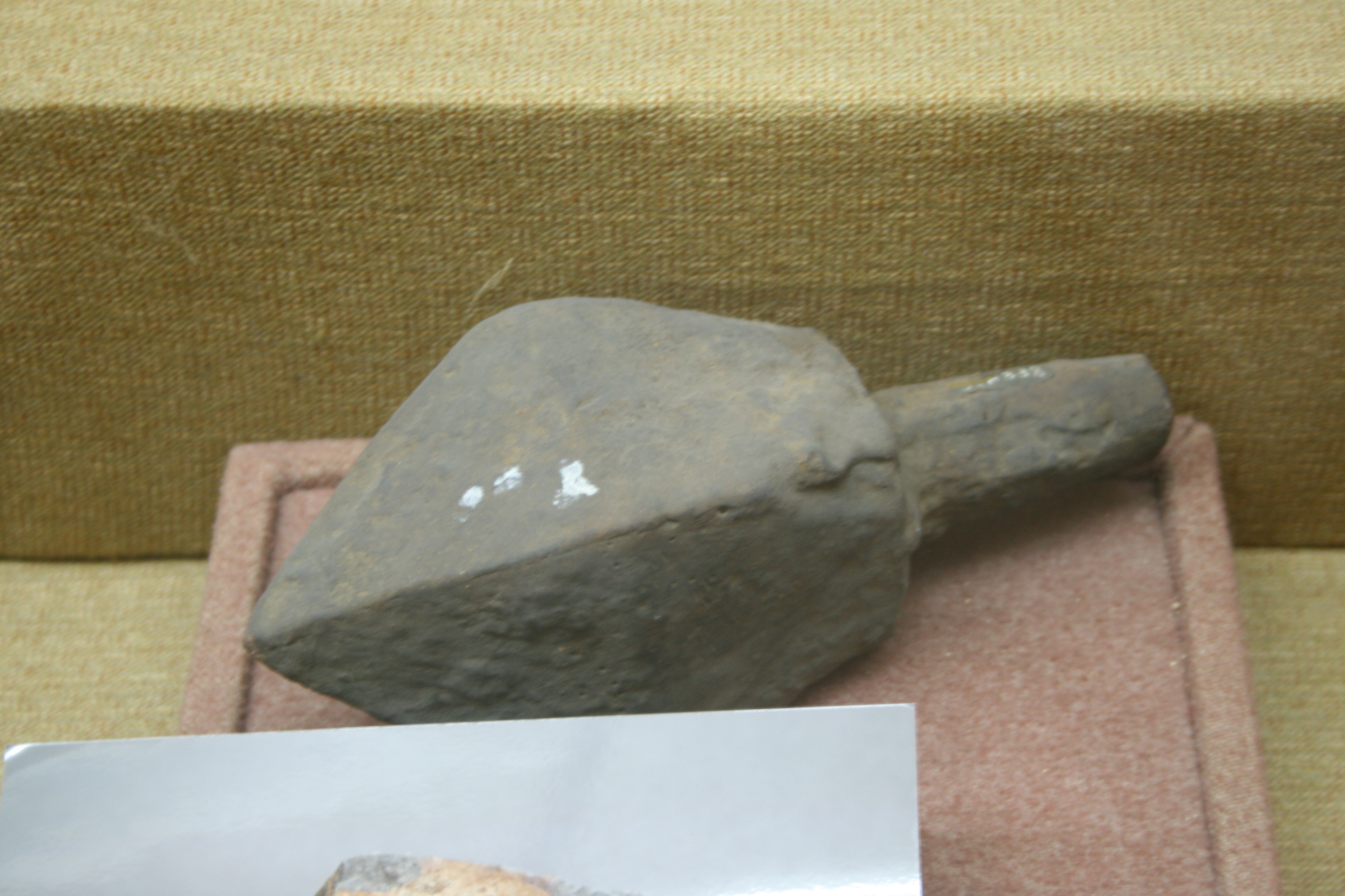 A battering ram dated to the Three Kingdoms.